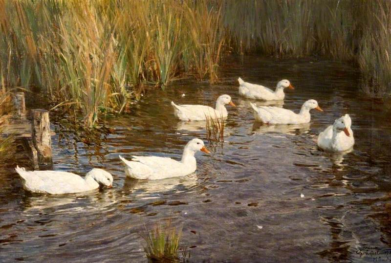 Grassel, Franz; Ducks; Glasgow Museums